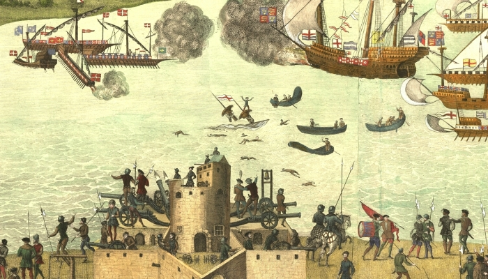 Detail of the Cowdray Engraving showing the sinking of the English warship Mary Rose on 19 July 1545. Based on an original painted between 1545 and 1548 for Anthony Browne, Master of the Horse, which was lost in the fire that destroyed Cowdray House in 1793.